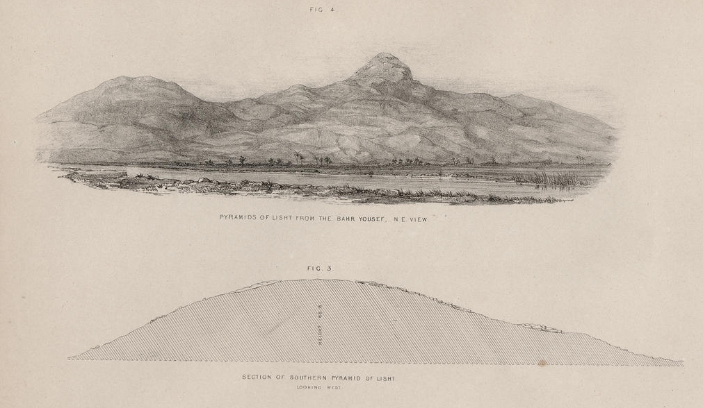 View on the pyramids of Lisht and section of the Pyramid of Senusret I